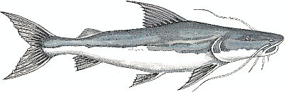 Piraiba fish, art of autor